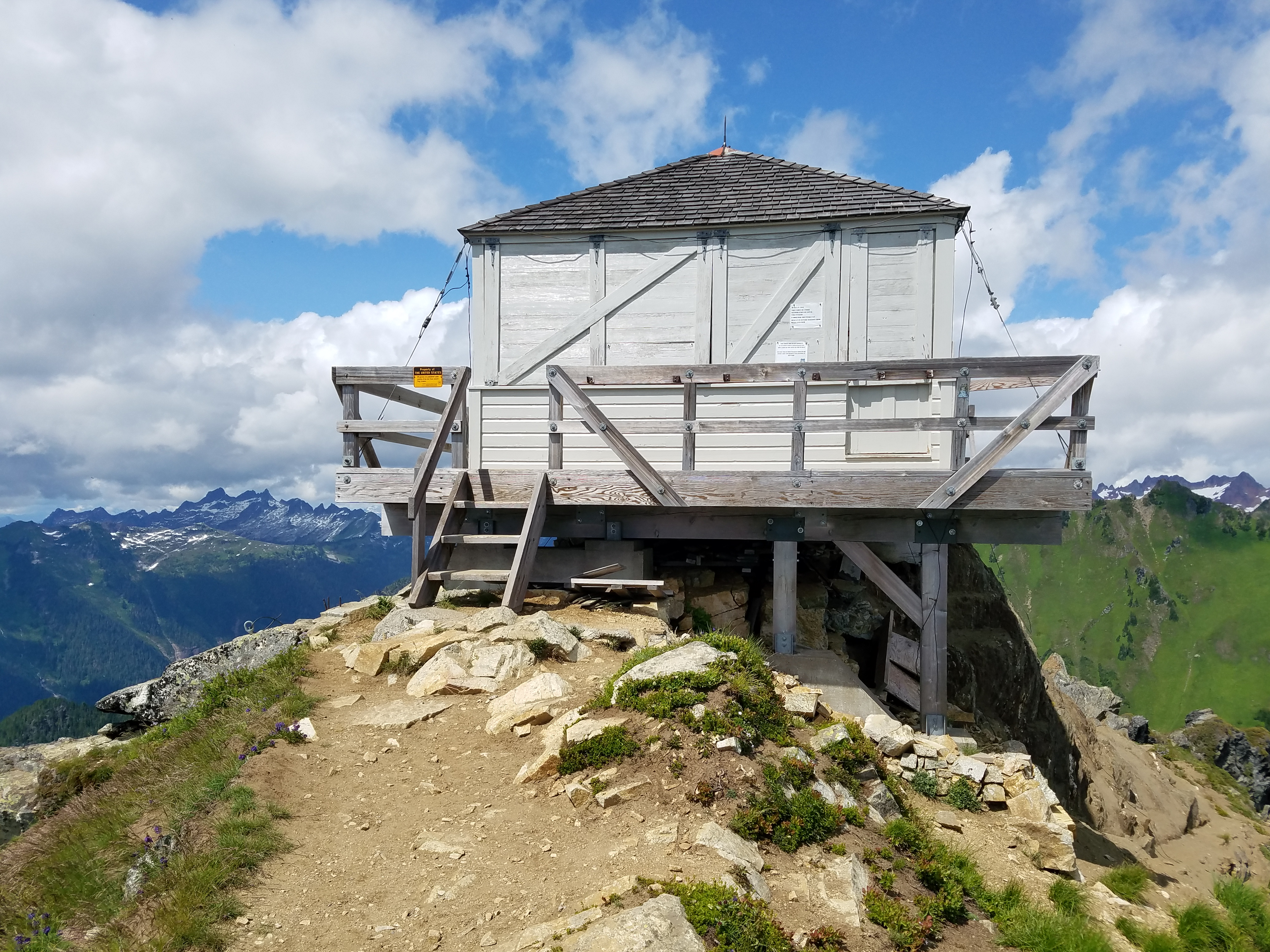 Lookout at the top of Green Mountain, Glacier Peak Wilderness, preserved by S.404 - Green Mountain Lookout Heritage Protection Act, 113th U.S. Congress, 2014